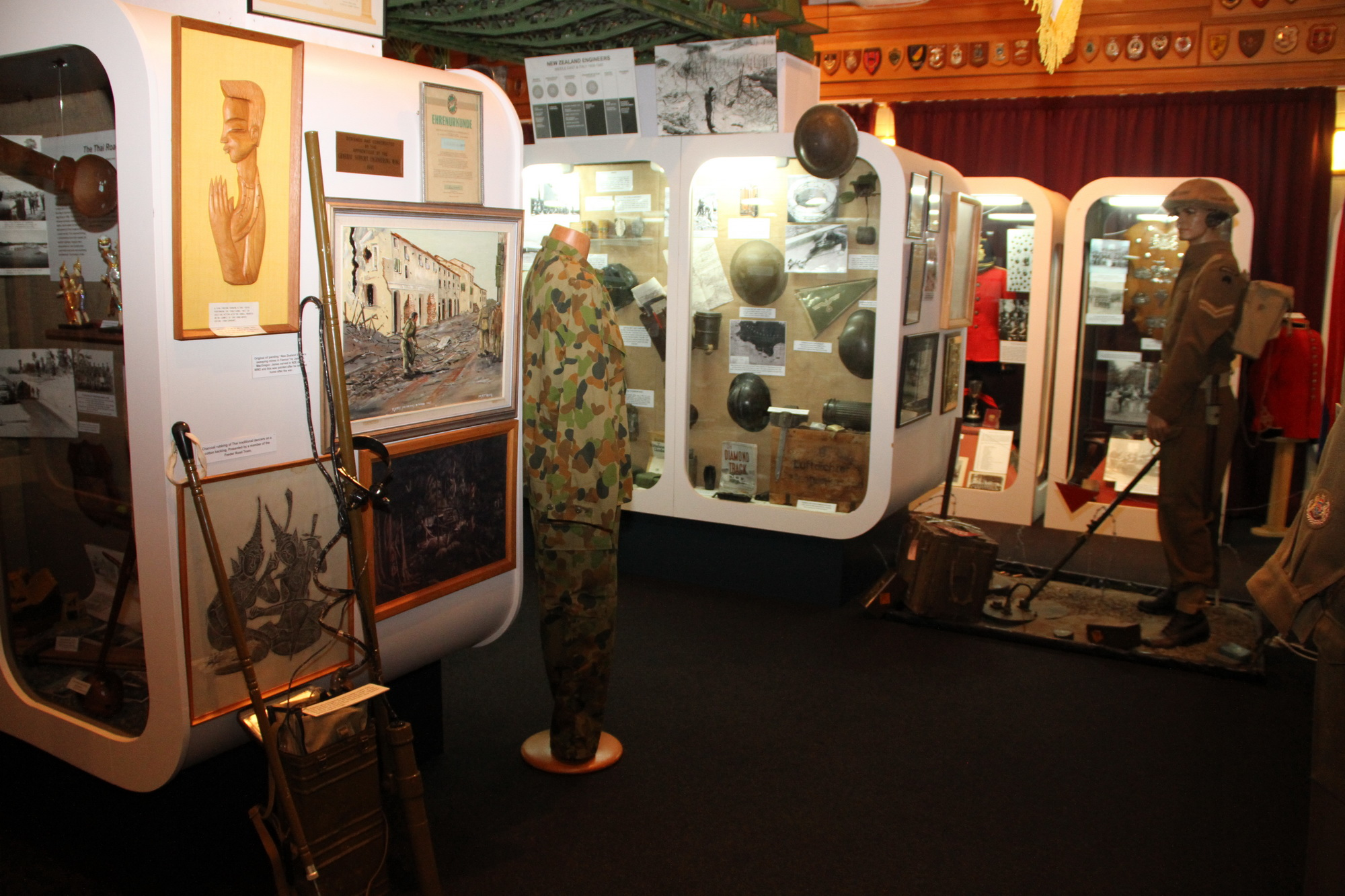 ECMC interior exhibits